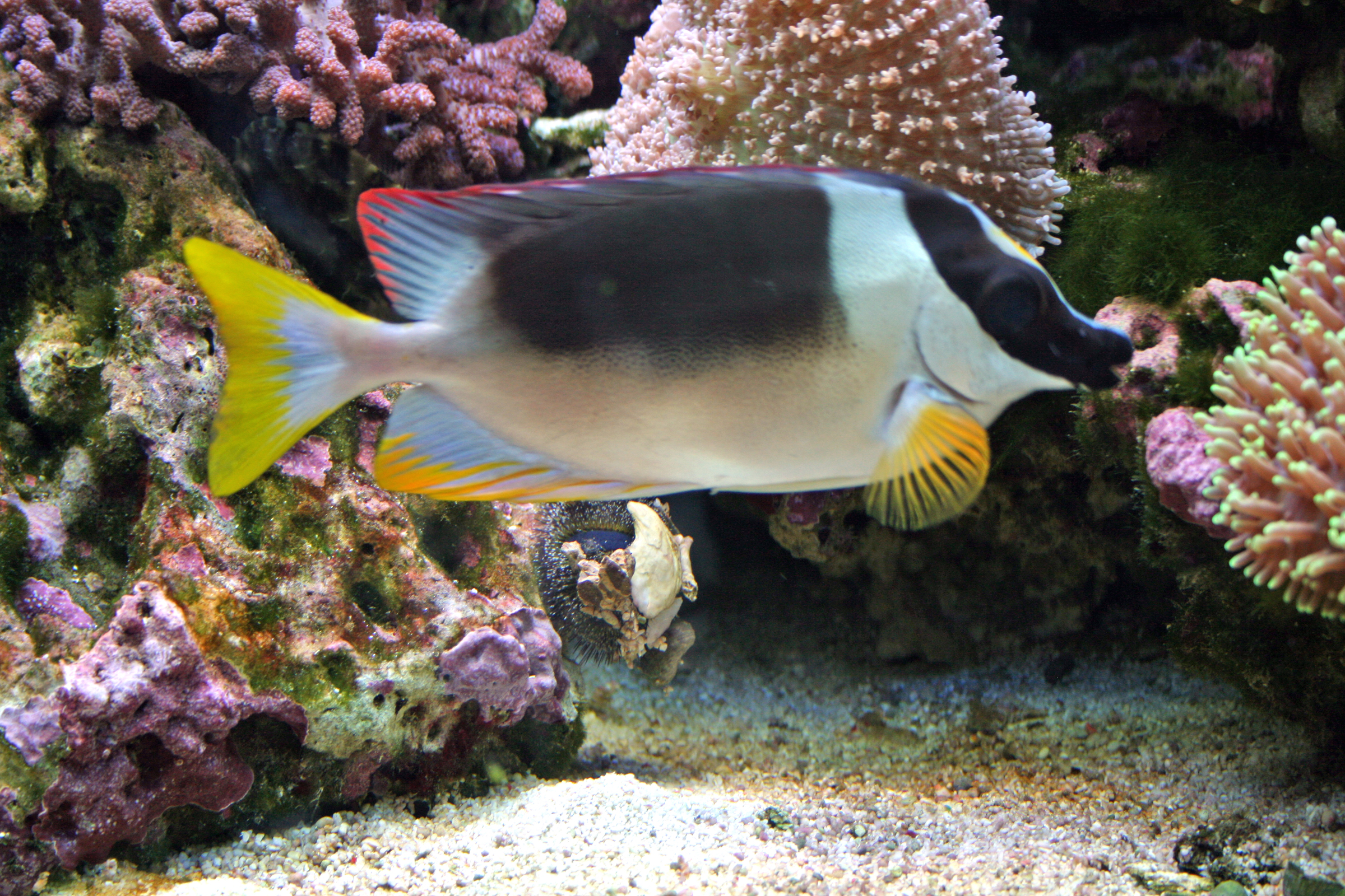 Fish Siganus magnificus Siganus magnificus in Prague sea aquarium, Czech Republic